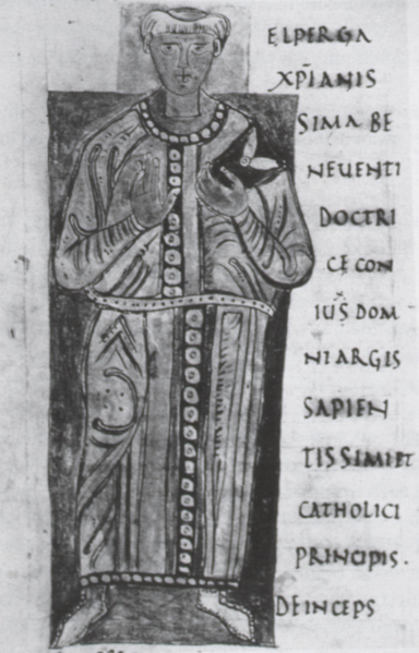 Portrait of Paulus Diaconus. Detail of fol. 34r of Laurentian Plut. 65.35. The text reads: [Domina Ad]elperga Christianissima Beneventi Doctrice coniux Domni Argis Sapieneissimi & Catholici Principis. Deinceps [quae secuntur, idem Paulus ex diversis auctoribus proprio stilo contexuit] Literature: Francisci Antonii Zachariæ Societatis Jesu Excursus litterarii per Italiam ab anno 1742 ad annum 1752. Volumen 1., ex Remondiniano Typographio, 1754, p. 219.